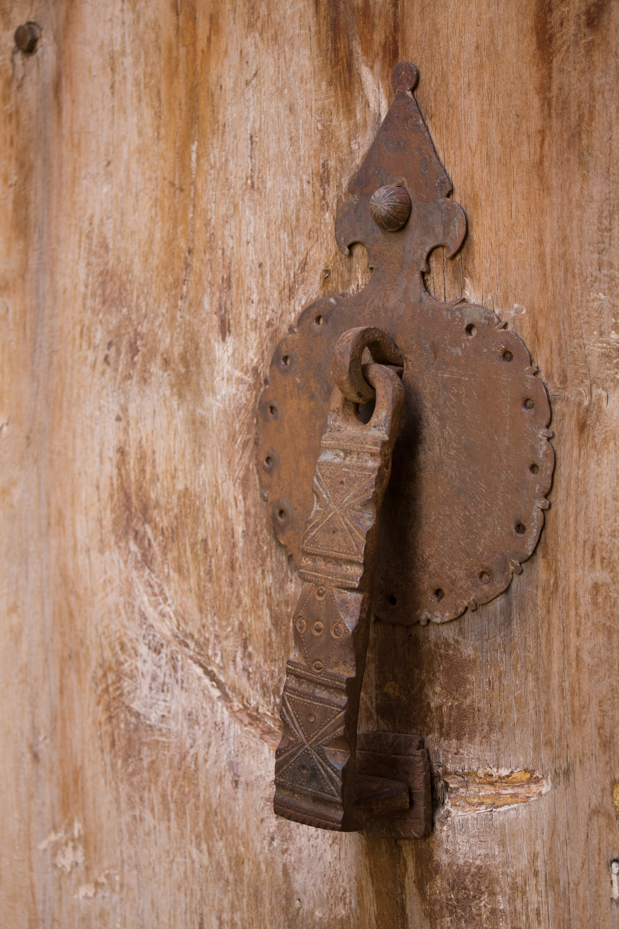 Door knocker of Behnam House (Currently Architecture University), Tabriz.